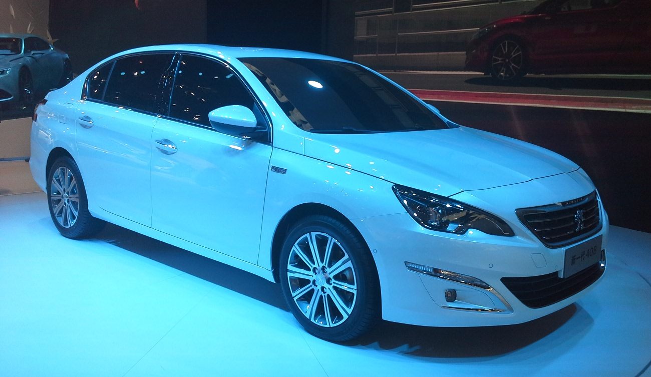 Peugeot 408 II photographed at the Auto China 2014, Beijing, China.